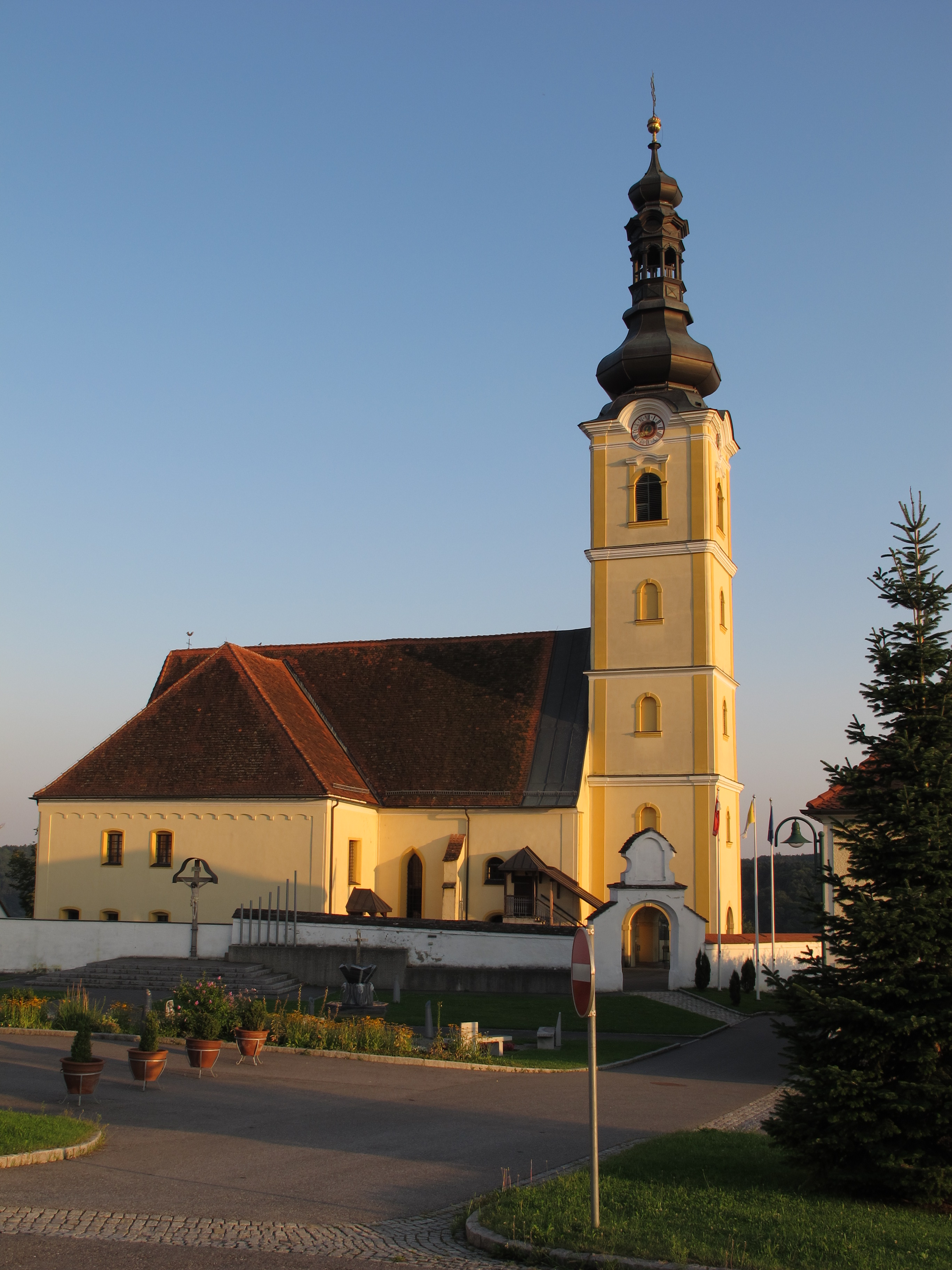 Kirche St. Marein bei Graz